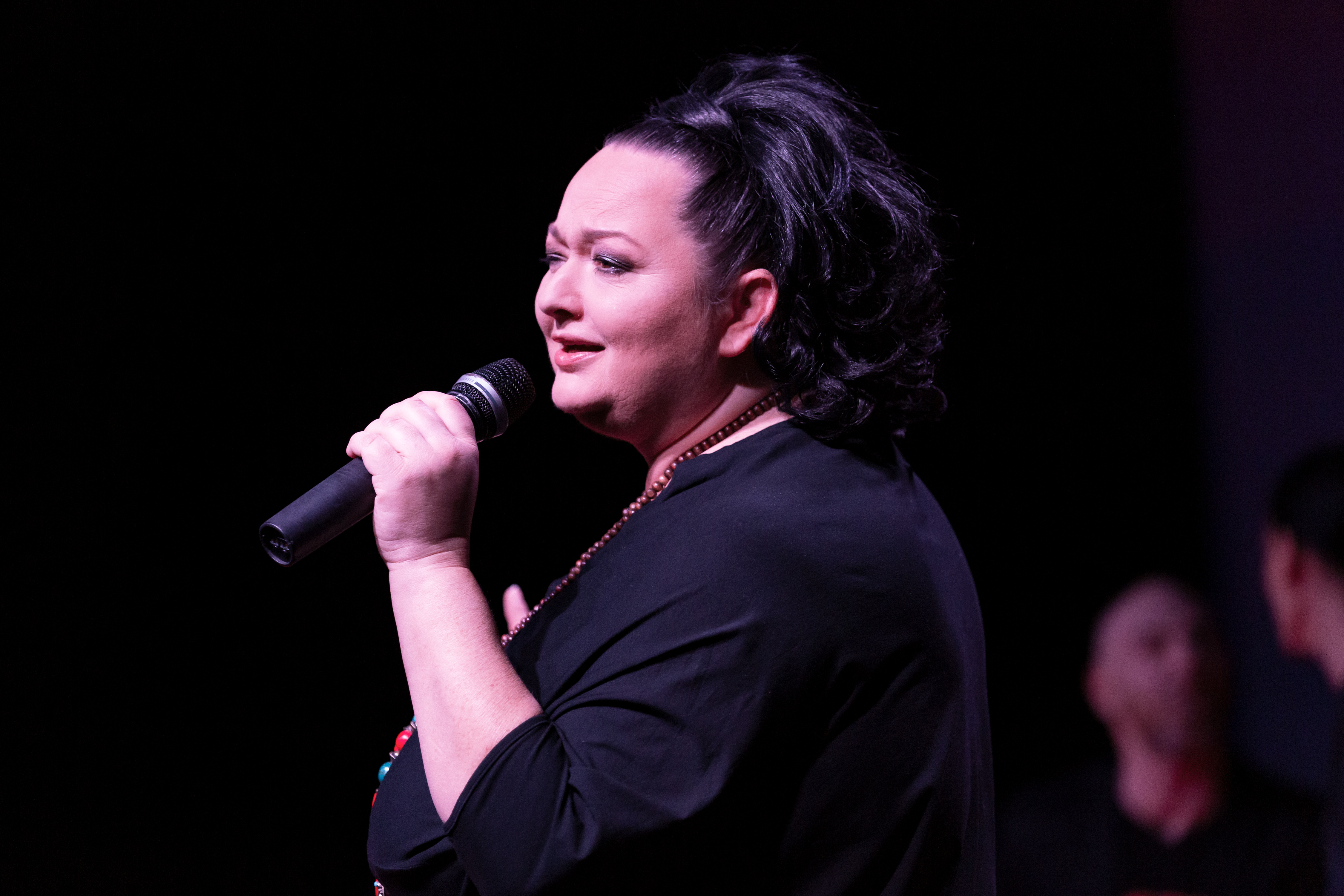 The Slow Club – Epilog, in memoriam Hansi Lang. A concert program with music by Lang and The Slow Club performed by: Thomas Rabitsch (keys, arr), Wolfgang Schlögl (el) and Andy Bartosh (git) with Madita, Birgit Denk, Tini Kainrath, Johannes Krisch and Roman Gregory (voc); Rabenhof Theater in Vienna, Austria.